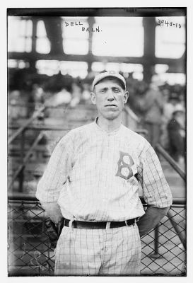 Wheezer Dell with the Brooklyn Robins